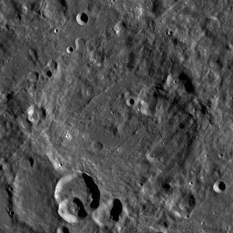 Blackett crater, on the far side of the moon. Mosaic of LRO WAC images. Aspect ratio adjusted from Mercator Projection.